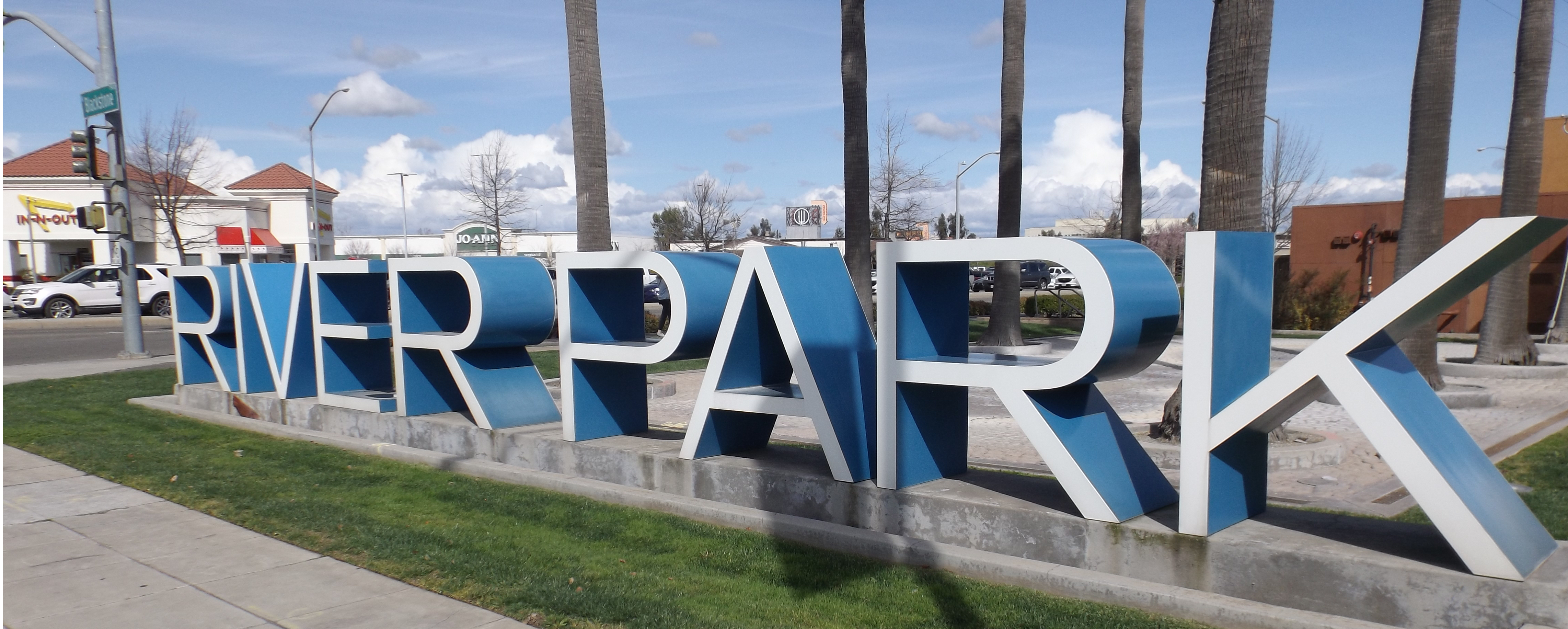 River Park Shopping Center sign at North Blackstone Avenue, with In-N-Out Burger restaurant, Jo-Ann Fabric & Craft store, Westwoods BBQ & Spice Co. restaurant, and a part of the building of a branch of Chase Bank in background